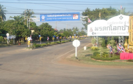 Ban Chiang Archaeological Site,Thailand.